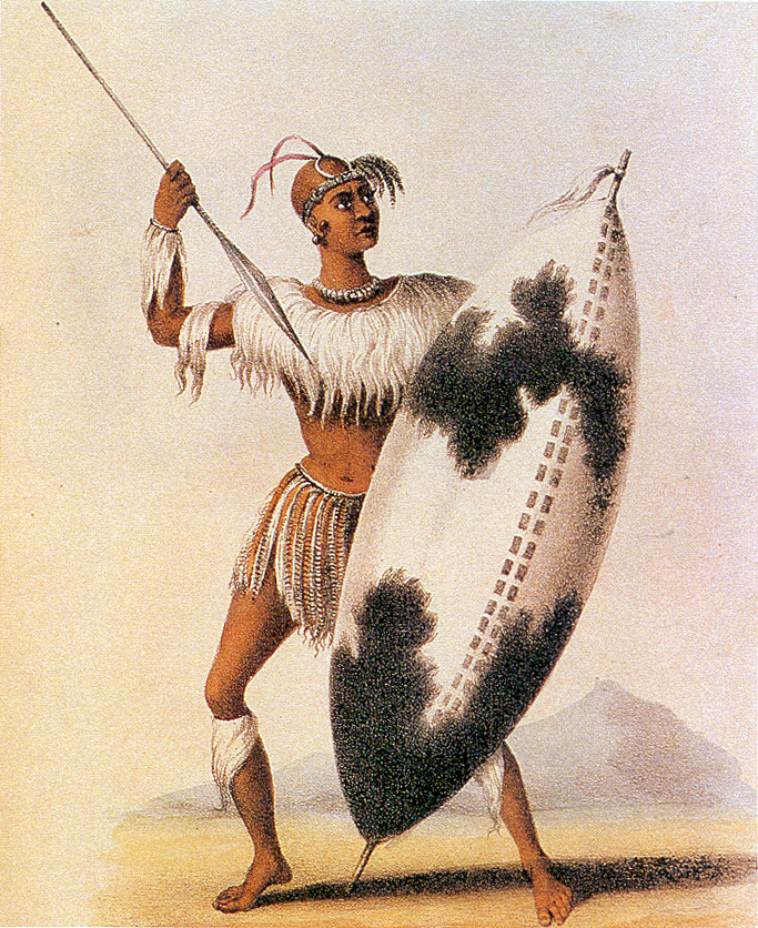 A Ndebele warrior